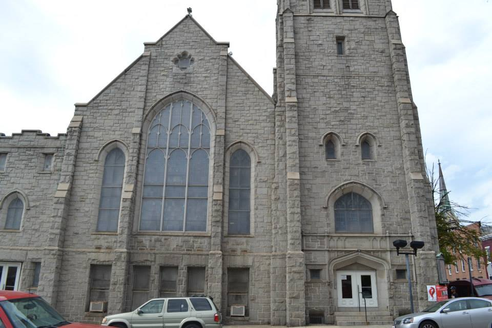 Sharp Street Memorial United Methodist Church and Community House, 508-516 Dolphin St. and 1206-1210 Etting St. Central